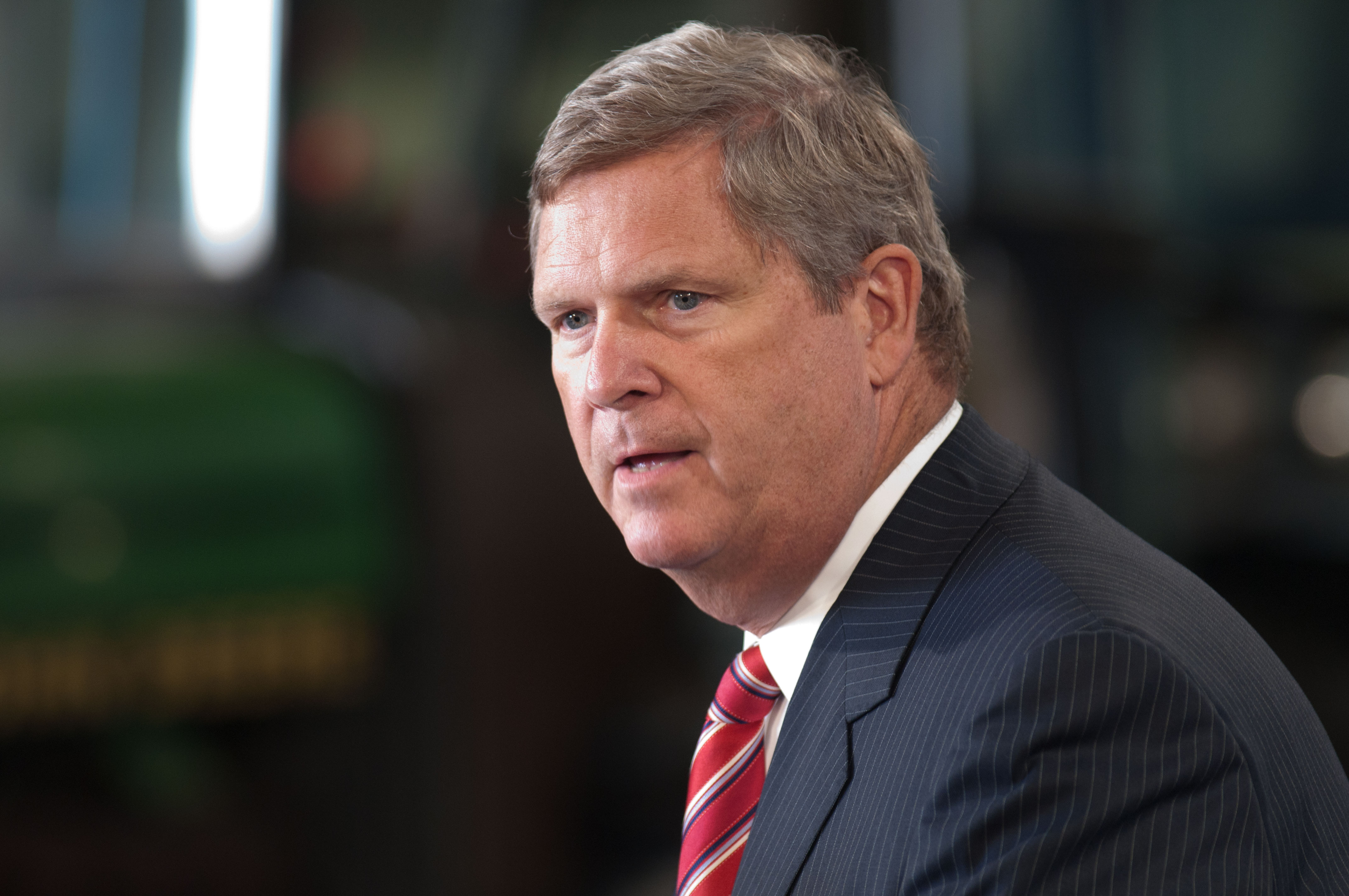 Agriculture Secretary Tom Vilsack introduces President Barack Obama at the Northeast Iowa Community College, for a White House Rural Economic Forum on Tuesday, August 16, 2011. The President’s visit would focus on agriculture’s contribution to the national economy, and how to create more jobs in rural America. USDA Photo by Lance Cheung.